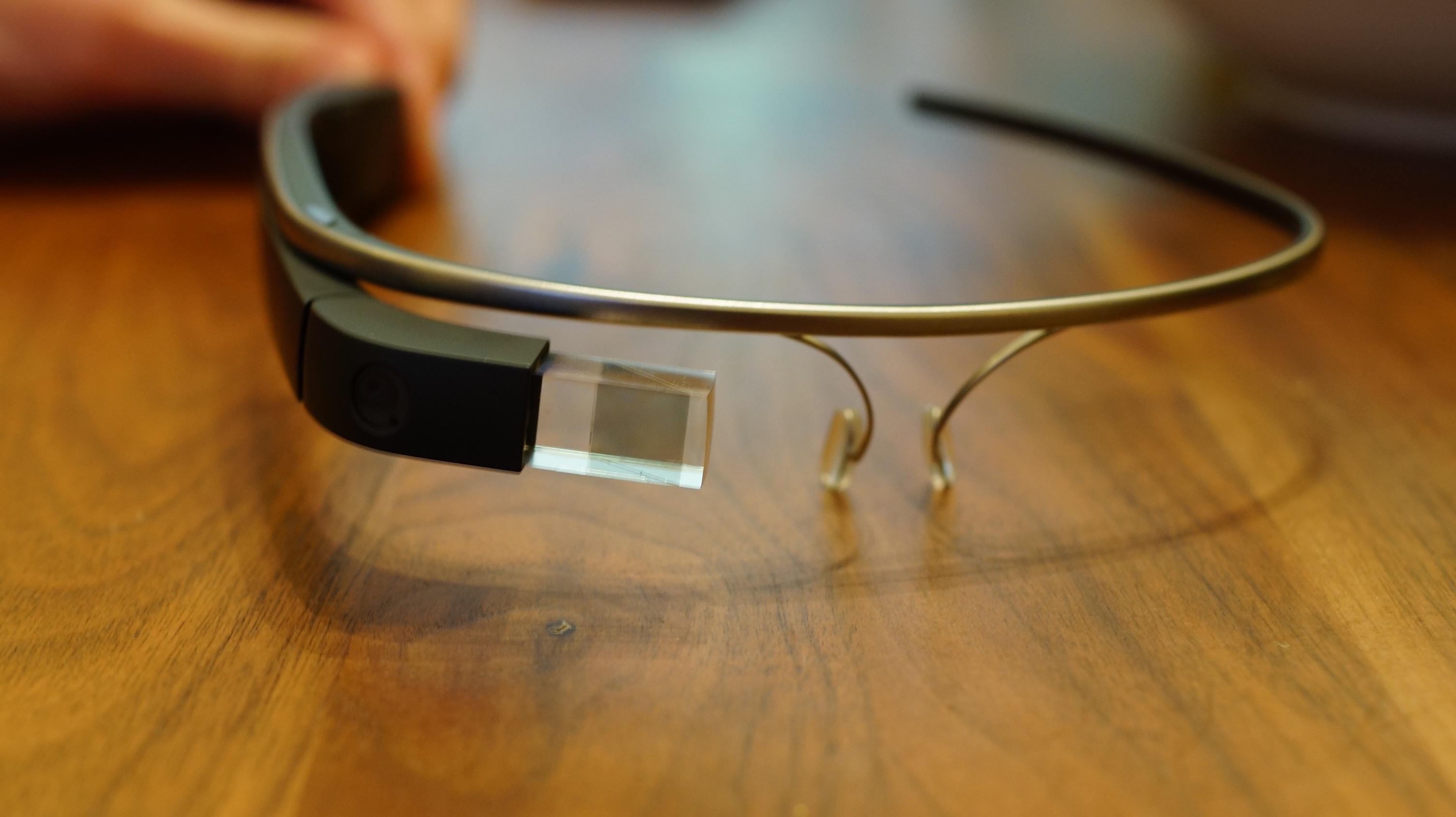 Google's augmented reality head mounted display as glass form